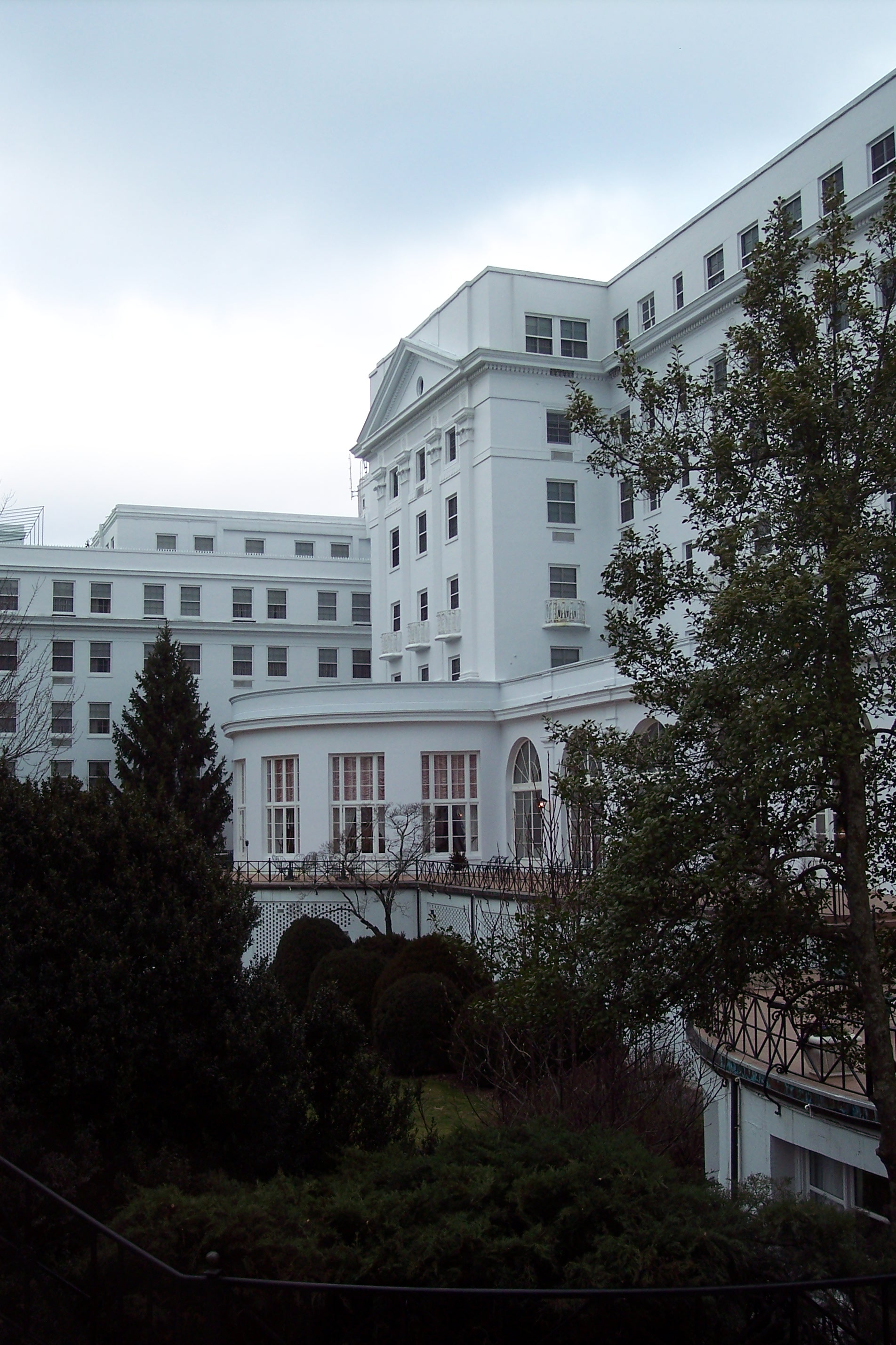 The Greenbrier Hotel view of outside back from inside.